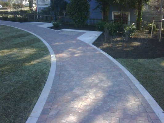 A garden walkway. done by Mayland based company "A Thru Z Striping".